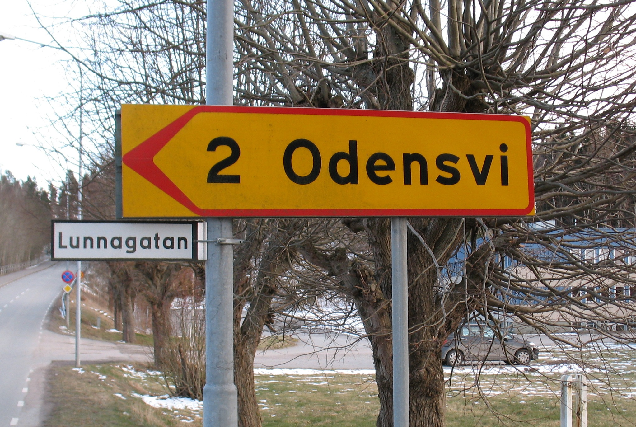 Street sign and directional road sign (to Odensvi) located in Hallsberg municipality, Närke, Sweden.